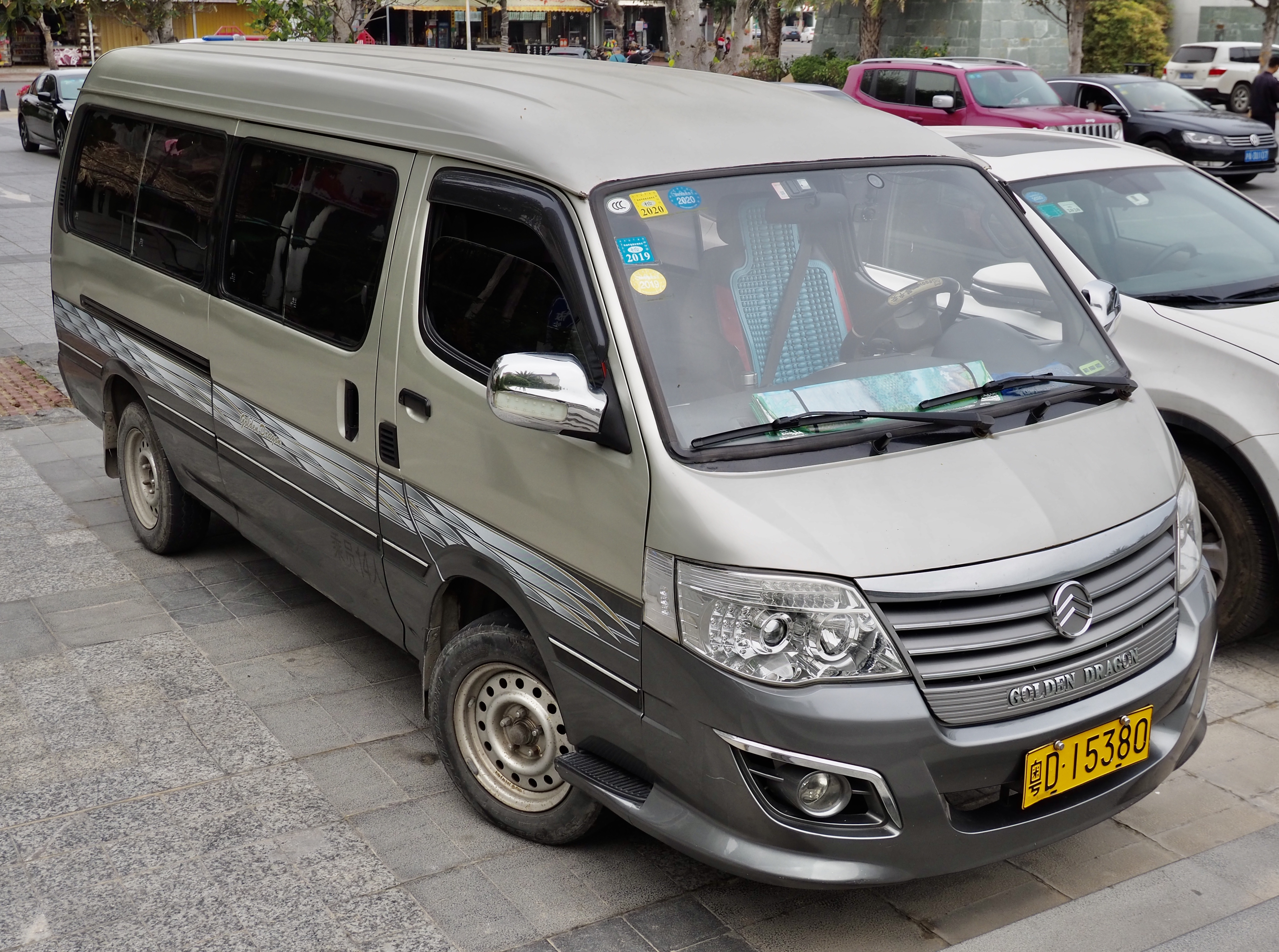 Xiamen Golden Dragon Haise in Nan'ao Island, Shantou, Guangdong Province, China. 中文（中国大陆）: 厦门金龙海狮在中国广东省汕頭市南澳岛。